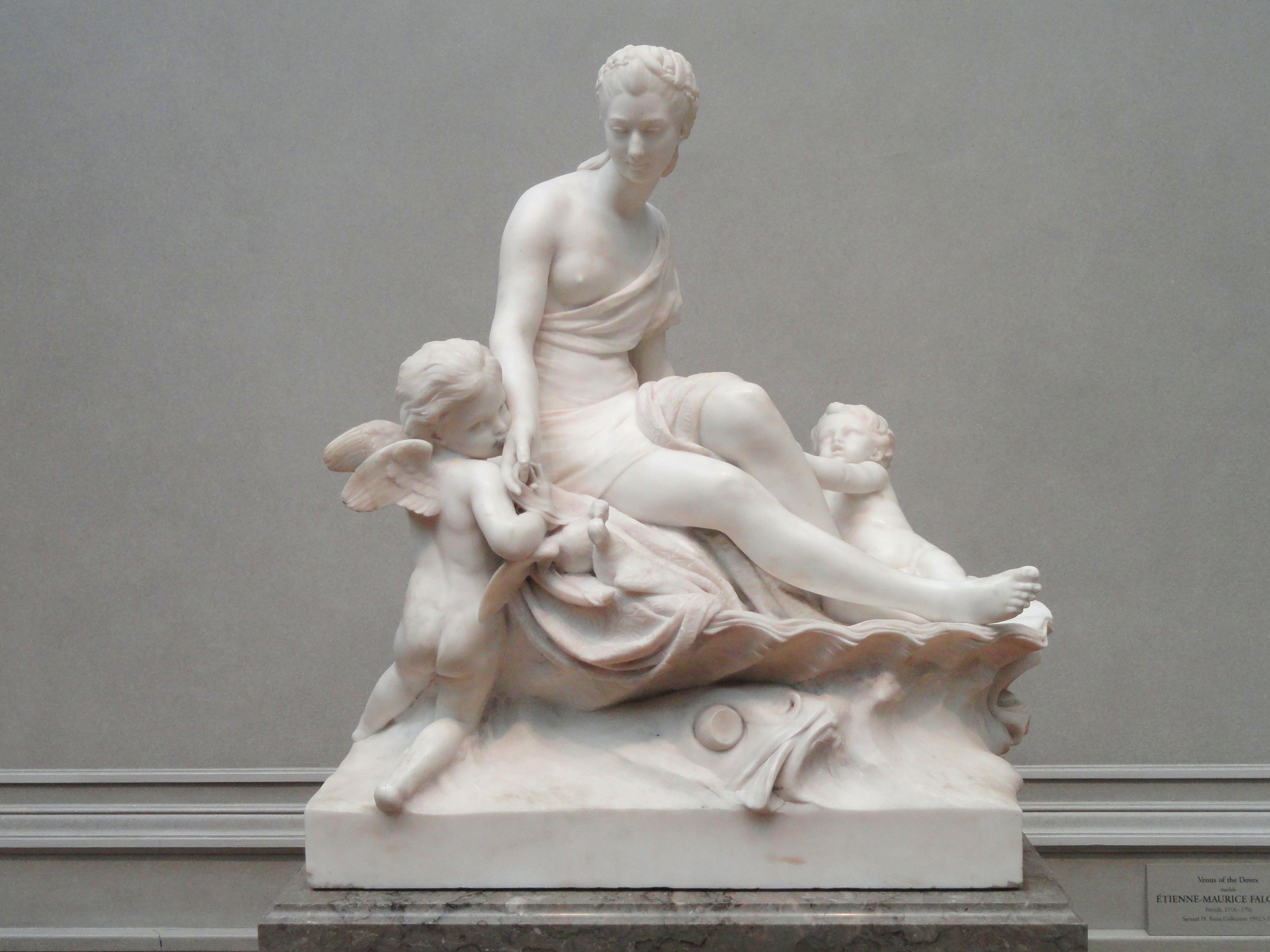 Venus of the Doves by Etienne-Maurice Falconet, undated mid 1700s, marble - National Gallery of Art, Washington, DC, USA. This work is in the public domain because the artist died more than 70 years ago.